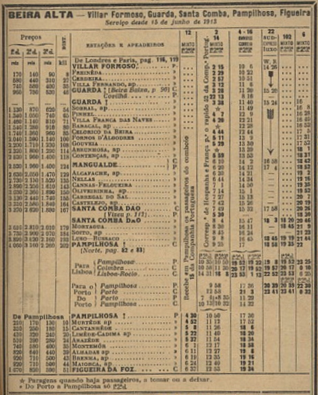 Timetable of 15th June 1913 for the Linha da Beira Alta (Beira Alta Railway), that originally spanned from Vilar Formoso to Figueira da Foz, via Pampilhosa, in Portugal This image was published on the Guia Official dos Caminhos de Ferro de Portugal No. 168, of October 1913, and scanned by the Biblioteca Nacional de Portugal.